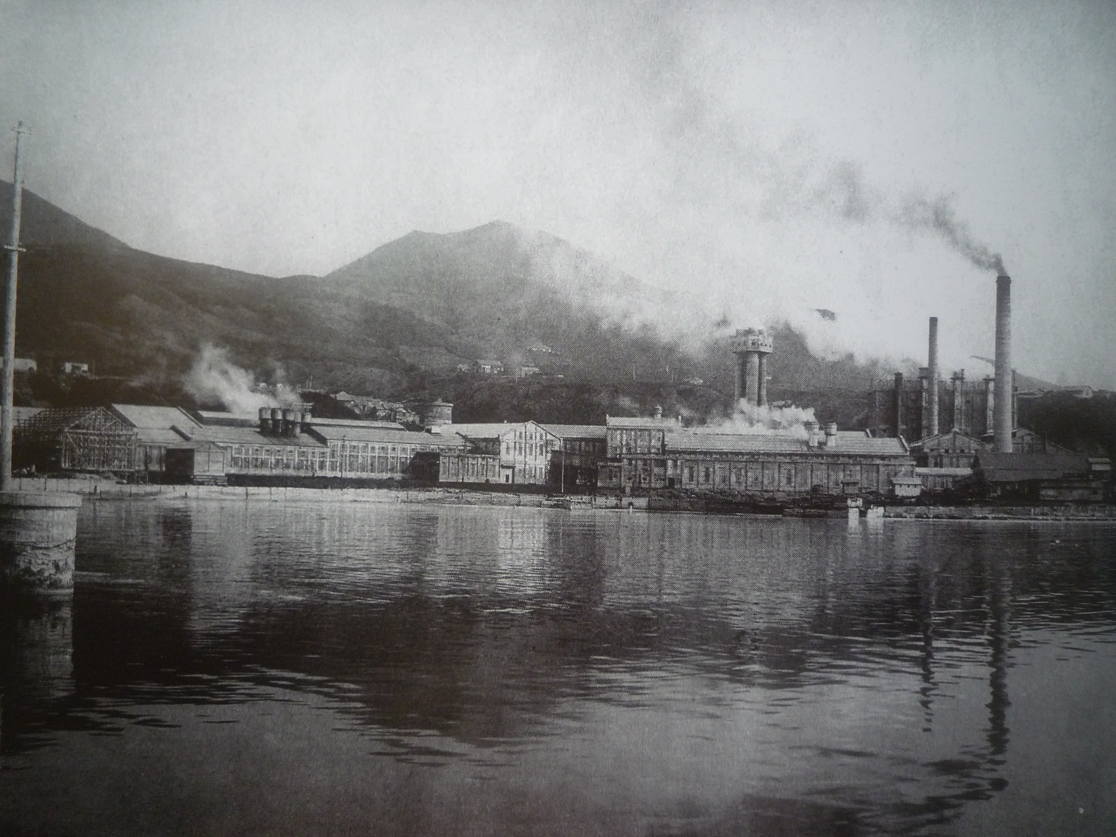 Fabrique de papier (Maoka, 1930s years)